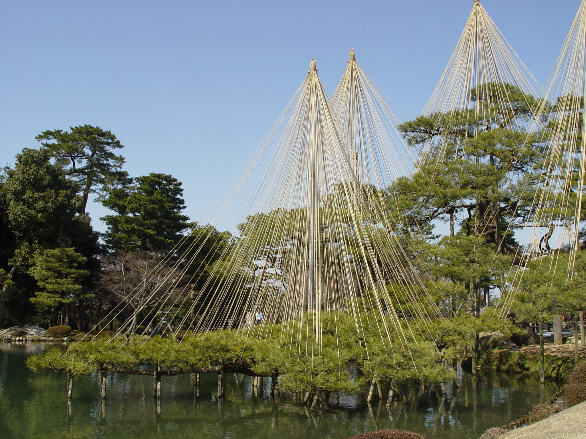 Japan. Ishikawa-ken, Kanazawa-shi. Structure known as yukitsuri that protects the trees (pines) from the heavy snow.